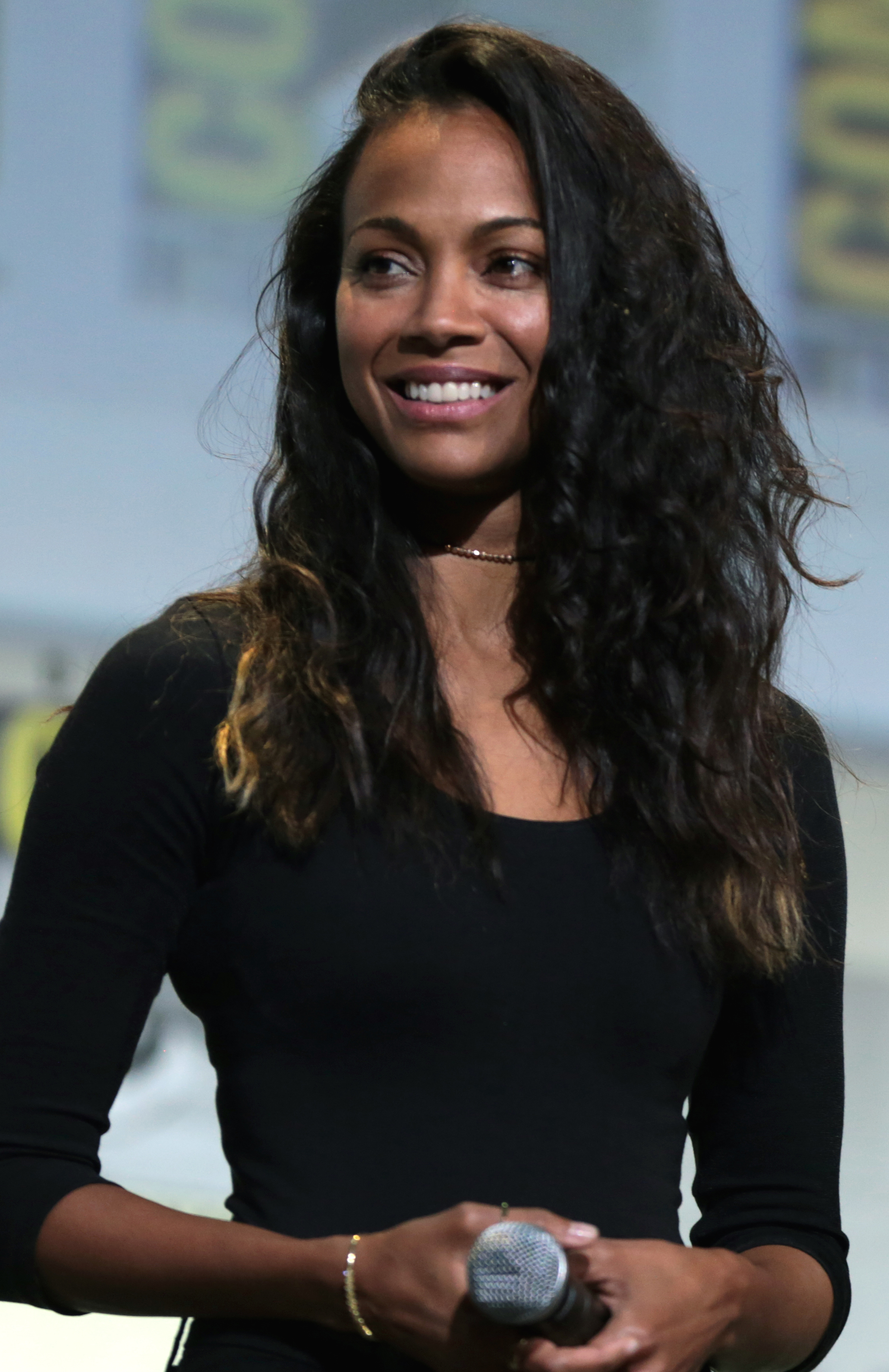 Zoe Saldana speaking at the 2016 San Diego Comic-Con International in San Diego, California.